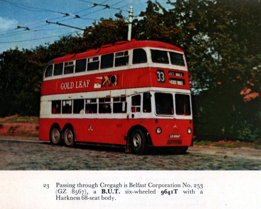 BUT 9641T trolleybus servicing in Belfast